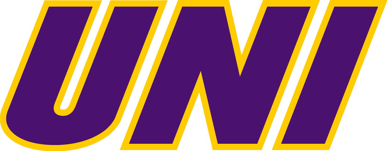 Wordmark for the University of Northern Iowa Panthers